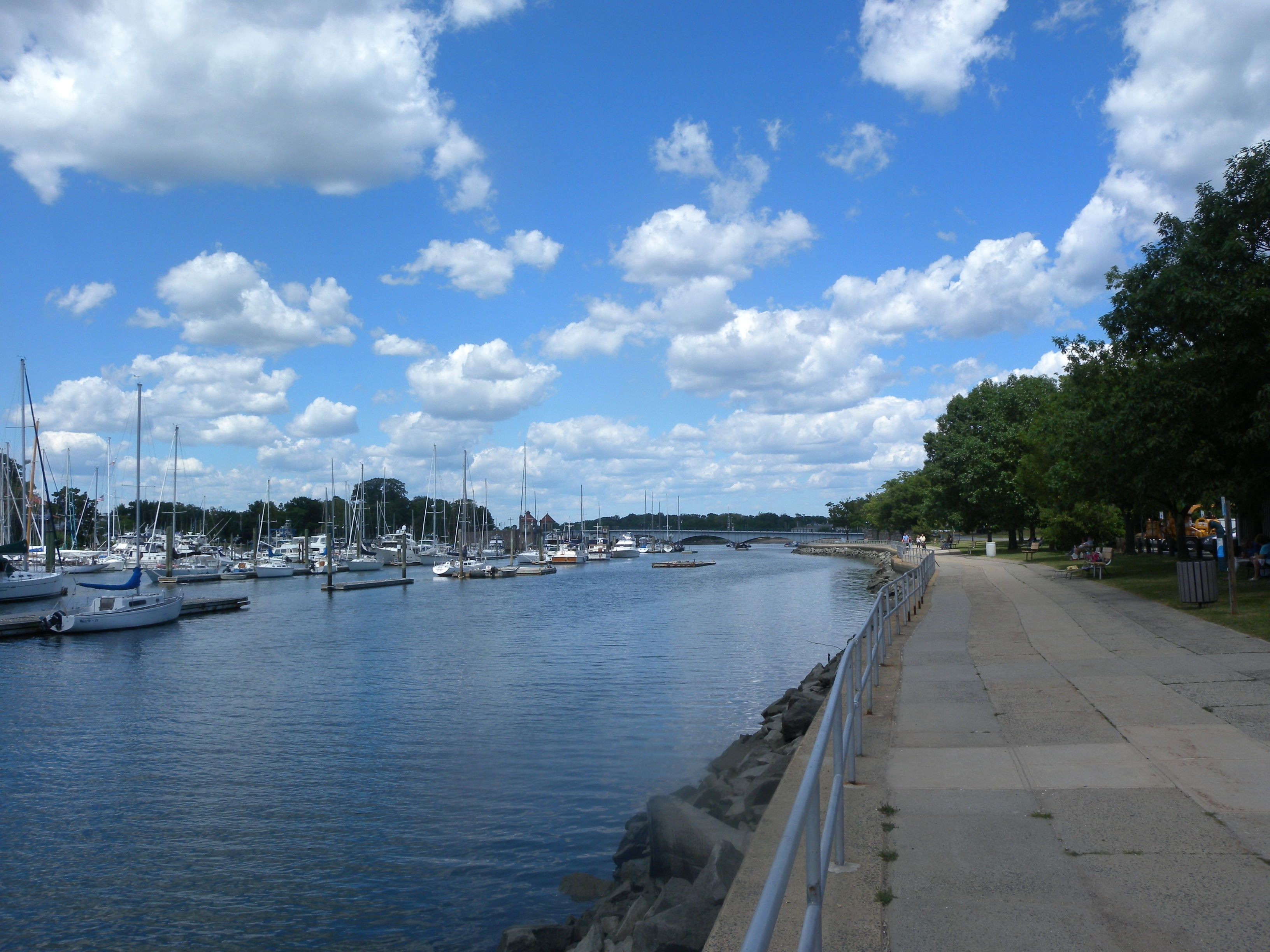 Looking north along the channel towards Glen Island Bridge.